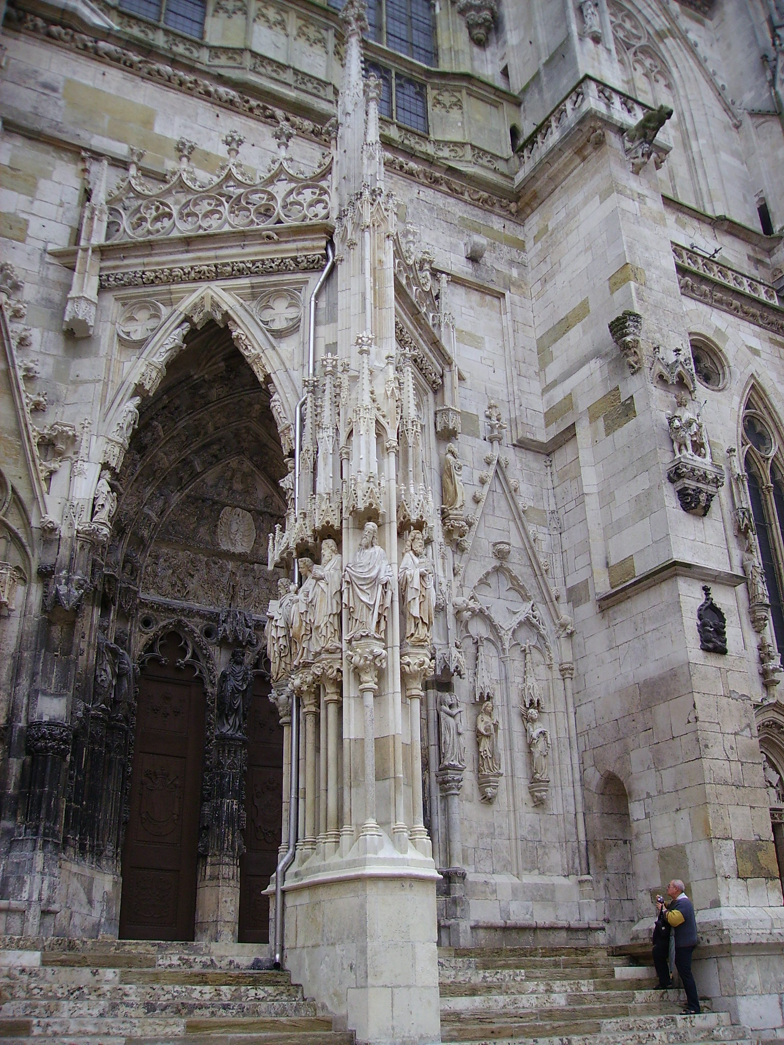 Western Portal of the catholic Cathedral/Minster St. Peter, Regensburg